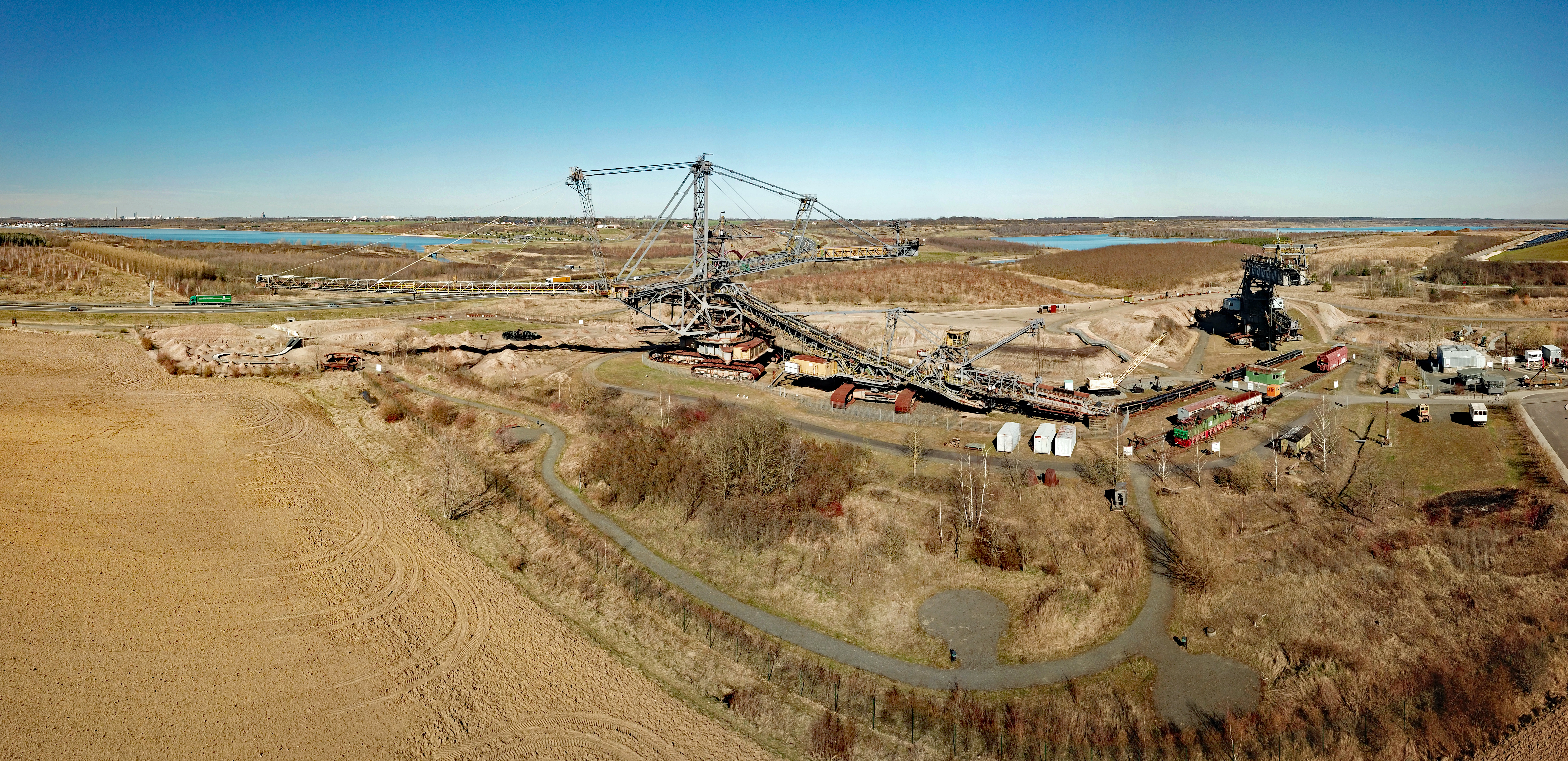 Bergbau-Technik-Park (Saxony, Gernany)